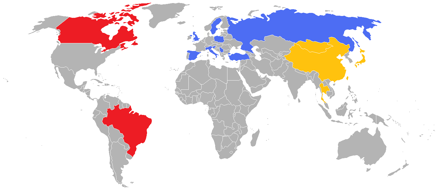 women's volleyball - universiade 2009 - teams